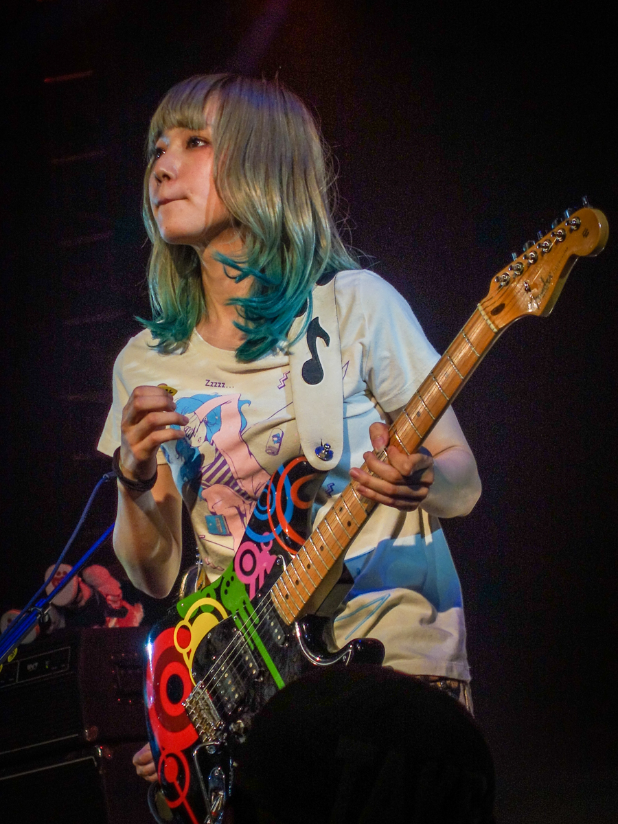 SCANDAL